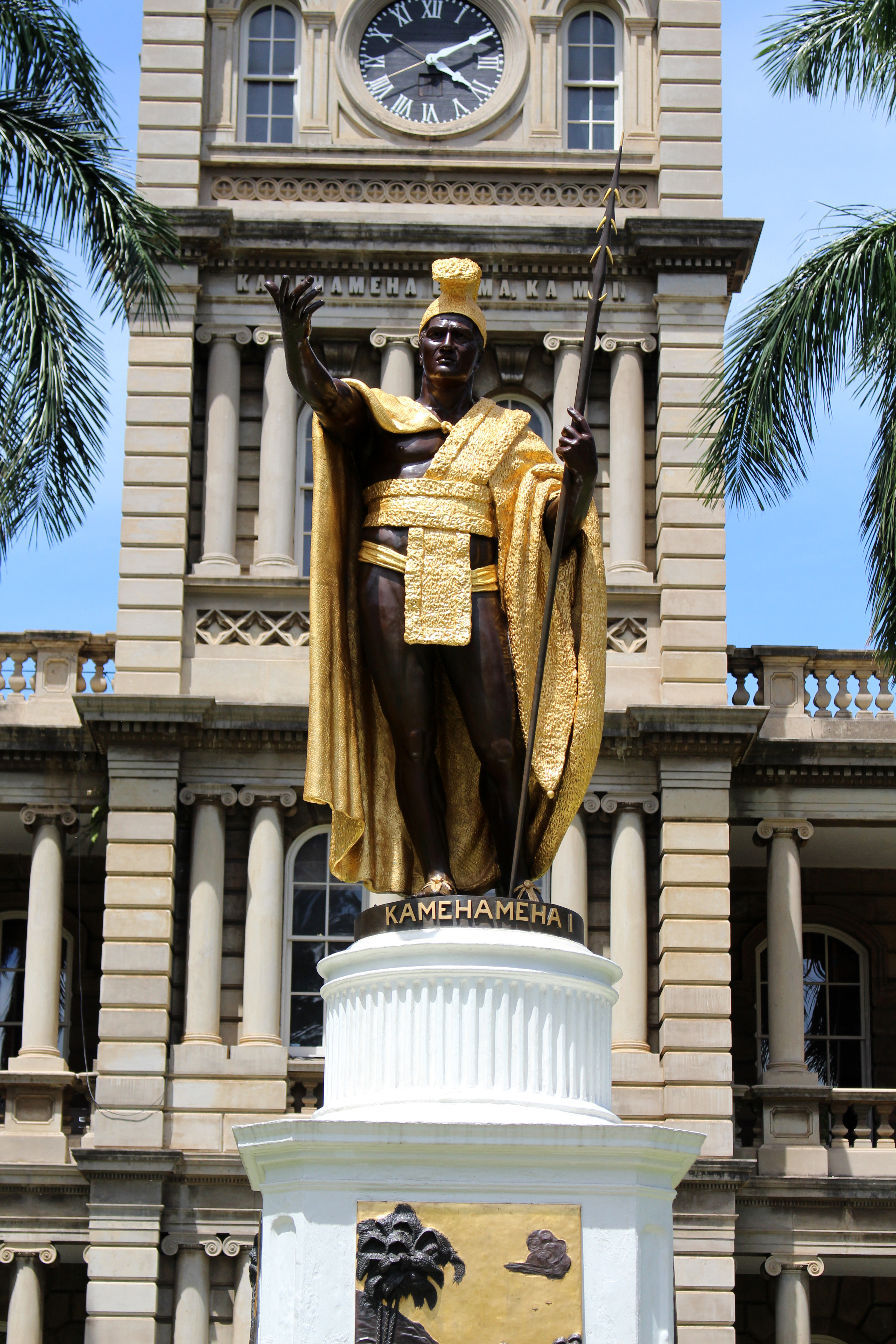 The statue of Kamehameha I in front of Aliʻiōlani Hale in Honolulu, Hawaii. Photographed by user Coolcaesar on May 25, 2019.